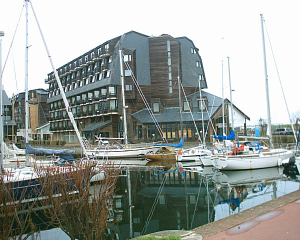 Summary Author: Gregory Deryckère